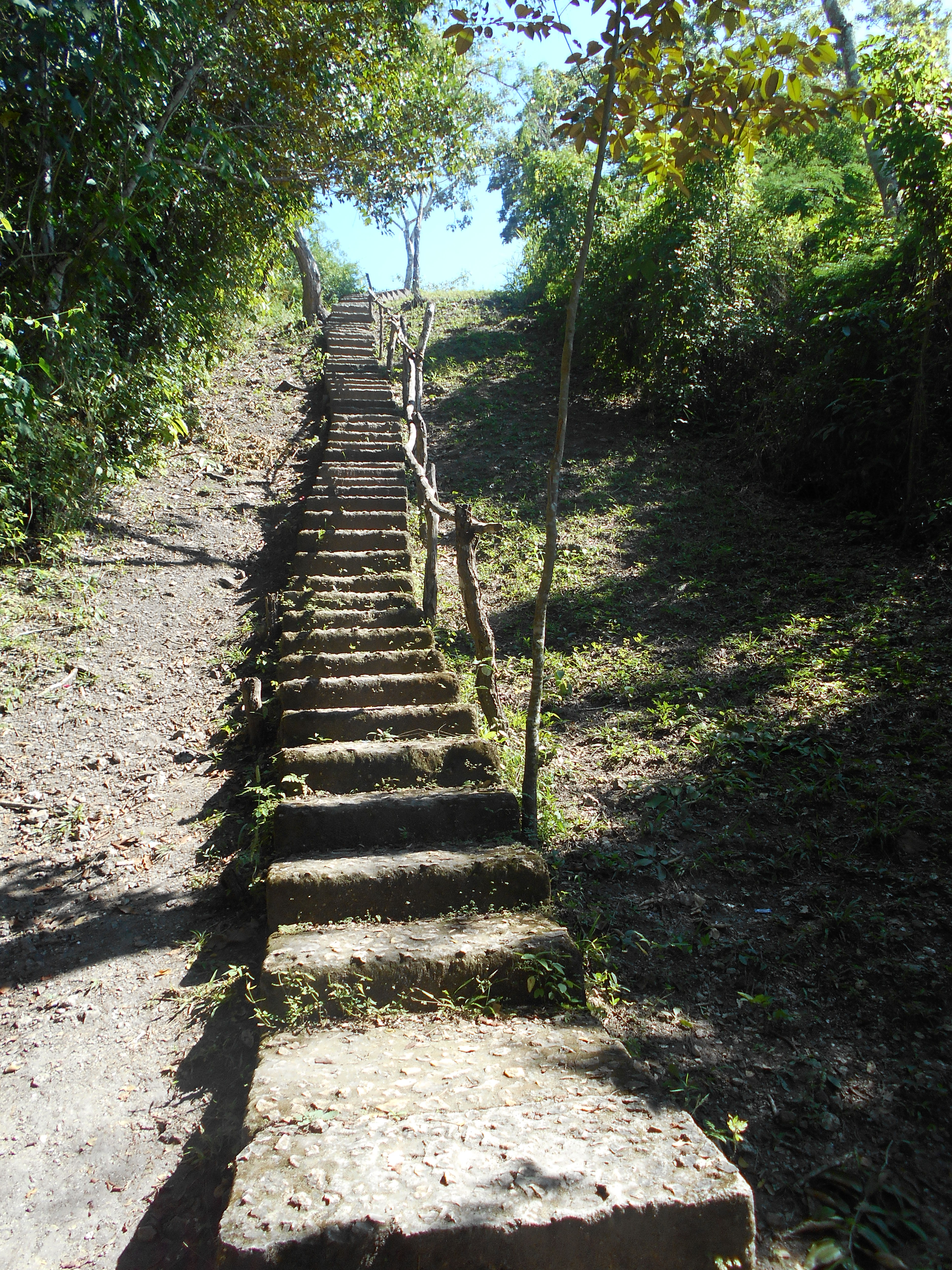 Tayazal archaeological site of the Late Classic Maya, located on the San Miguel peninsula, immediately north of Flores, Petén, Guatemala. Known locally as the Mirador del rey Can'Ek ("King Can'Ek's Lookout" after the Contact Period Itza kings, it was a triadic pyramid built during the Late Preclassic (c. 300 BC-250 AD).